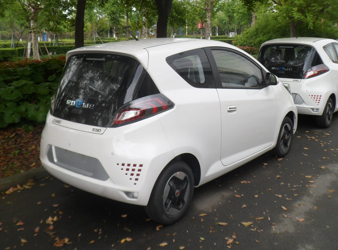 Roewe E50 photographed in Anting, Shanghai municipality, China.